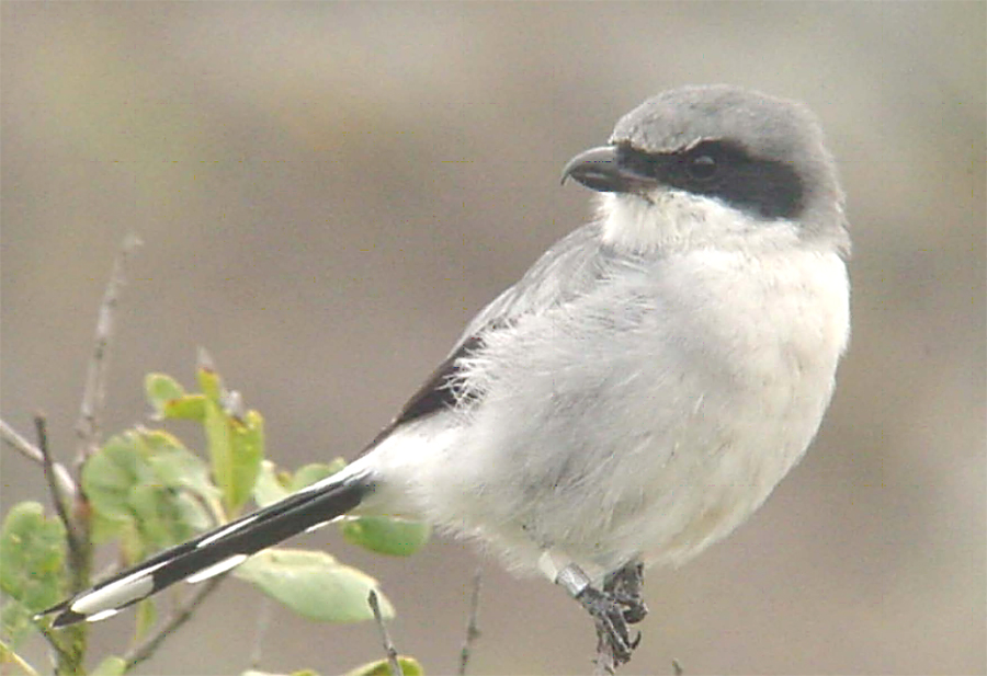 The San Clemente loggerhead shrike is one of the rarest birds in North America. A sub-species of the more widespread loggerhead shrike, it lives only on San Clemente Island. The Navy has owned and trained at San Clemente Island since 1934. The San Clemente loggerhead shrike (Lanius ludovicianus mearnsi) is a medium-sized bird with short rounded wings which are slightly shorter than its tail.The most pronounced features of shrike coloration are: the black mask which covers the lores and ocular region of the head; the demarcation between the black flight feathers, white underparts and rump, and gray back; and the patches of white on the wings and tail. The Navy initiated a recovery effort in 1991 in partnership with the U.S. Fish and Wildlife Service, the U.S. Department of Fish and Game, and the San Diego Zoo. San Clemente Island is the sourthernmost of eight channel islands in the Pacific Ocean off the southern California coast. Located about 75 miles northwest of San Diego, the island is about 21 miles long and 56 square miles in size. (Don Brubaker/for USFWS)